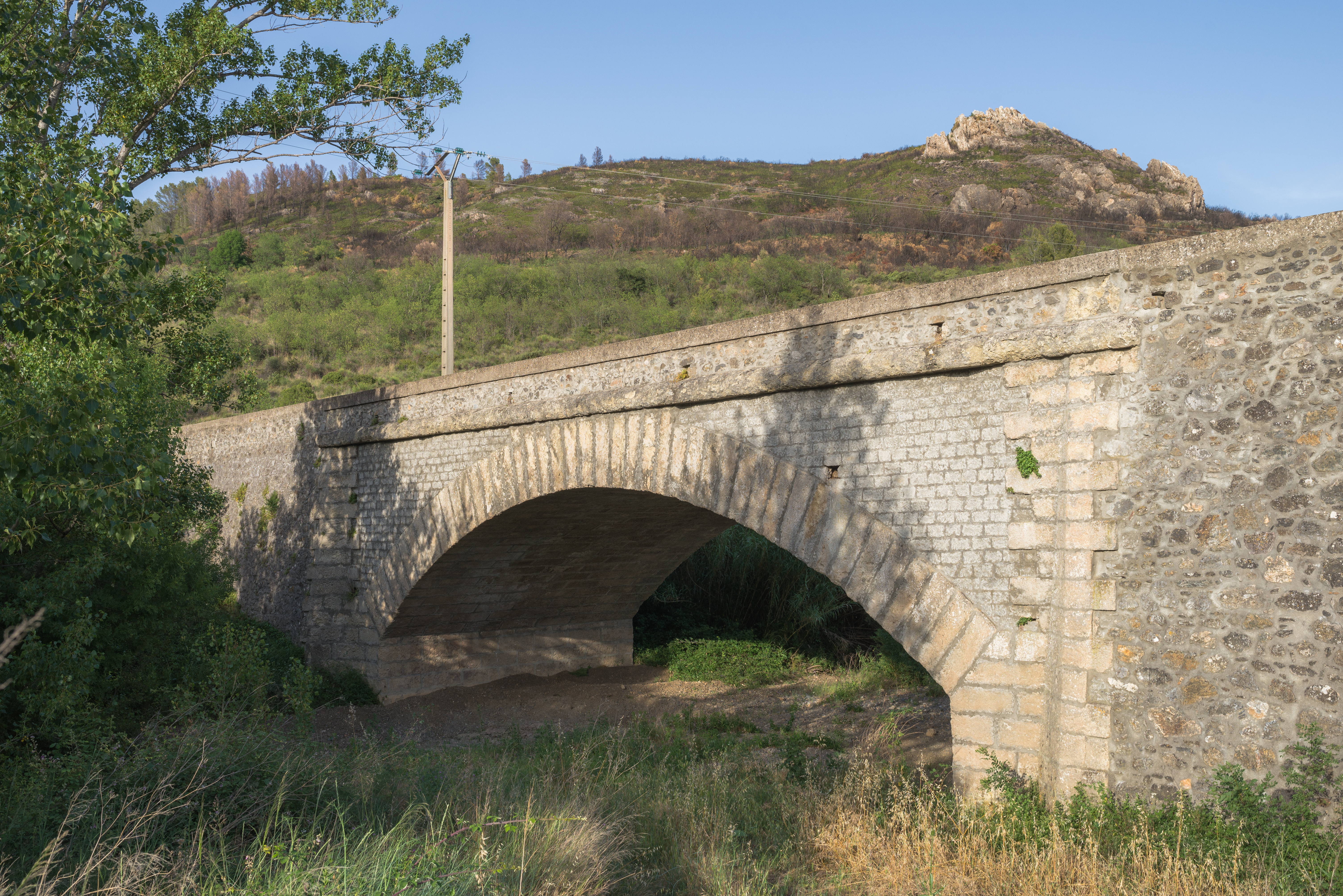 Bridge of the D15 (Departmental Road) over the La Boyne River. Place : Cabrières, Hérault, France.